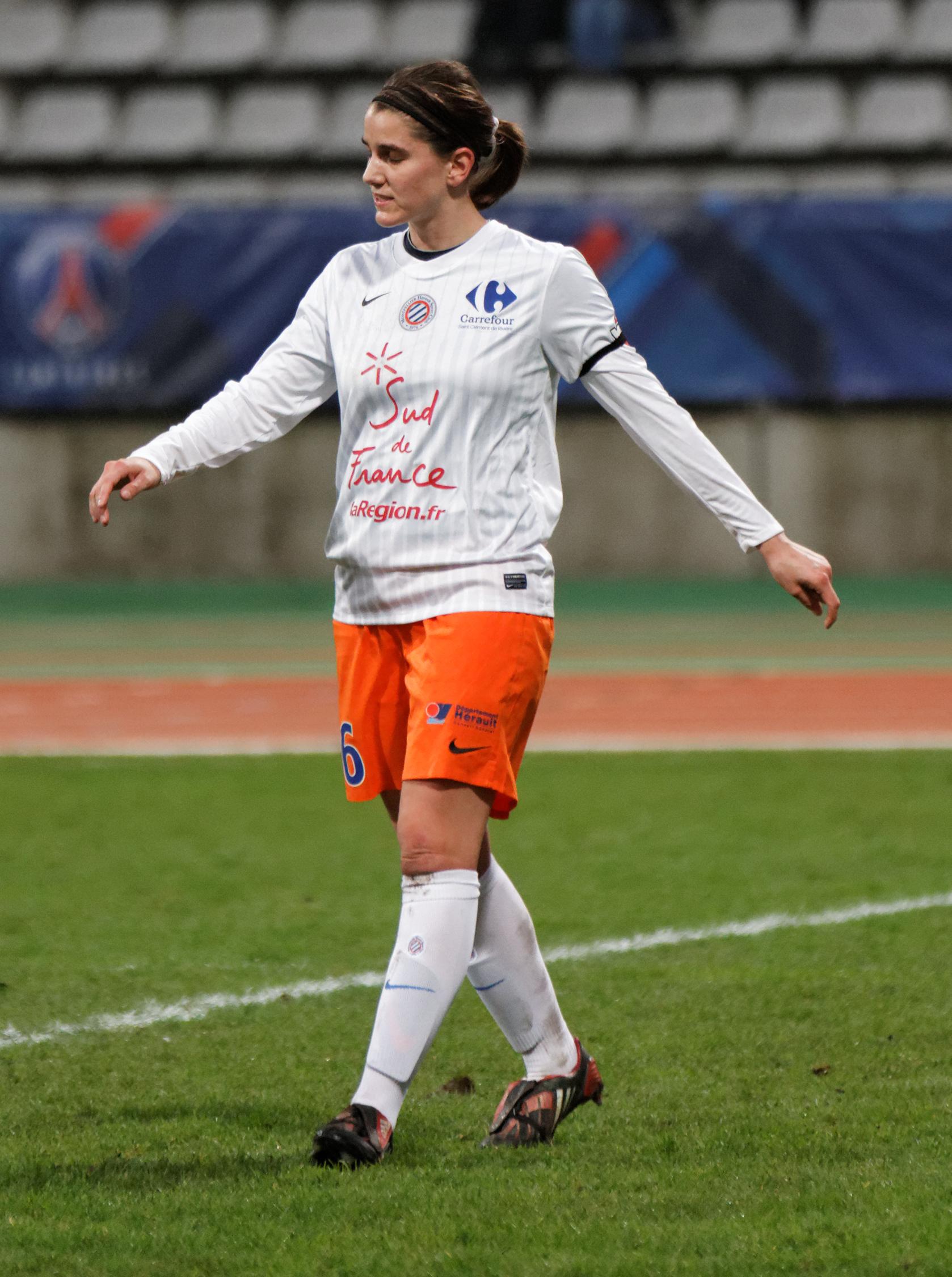 PSG-Montpellier, January 13th, 2013. Charlotte Bilbault (Montpellier).